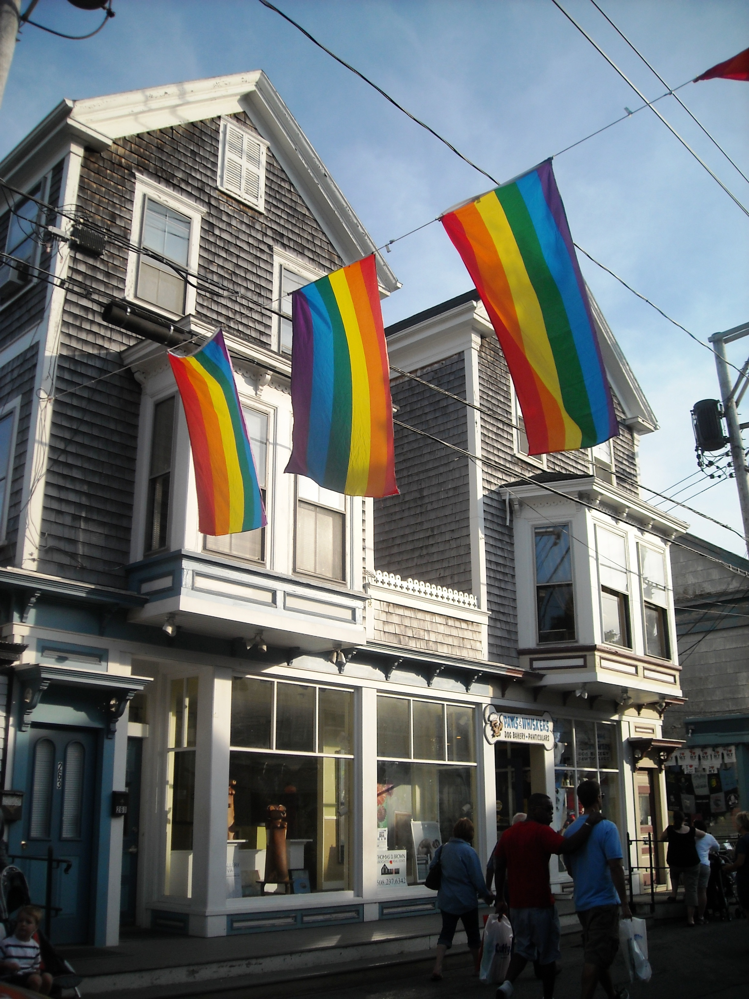 A Historic contributing property to the Provincetown Historic District.